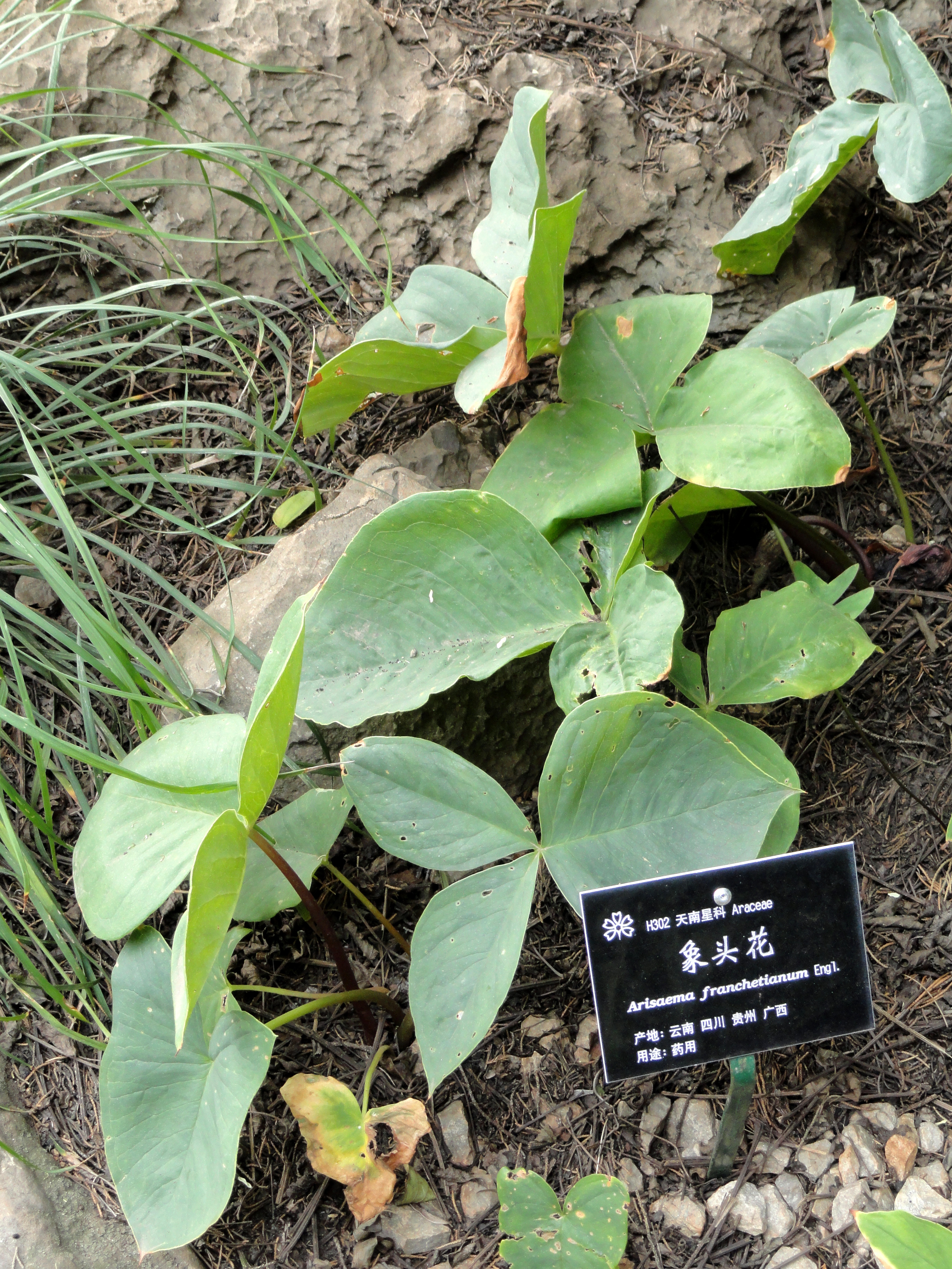 Plant specimen in the Kunming Botanical Garden, Kunming, Yunnan, China.